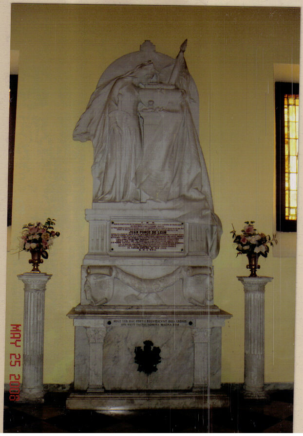 Tomb of Juan Ponce de Leon in the Cathedral of San Juan Bautista.